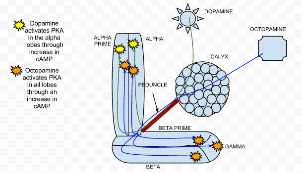 Shows PKA dynamics in Mushroom Bodies of Drosophila